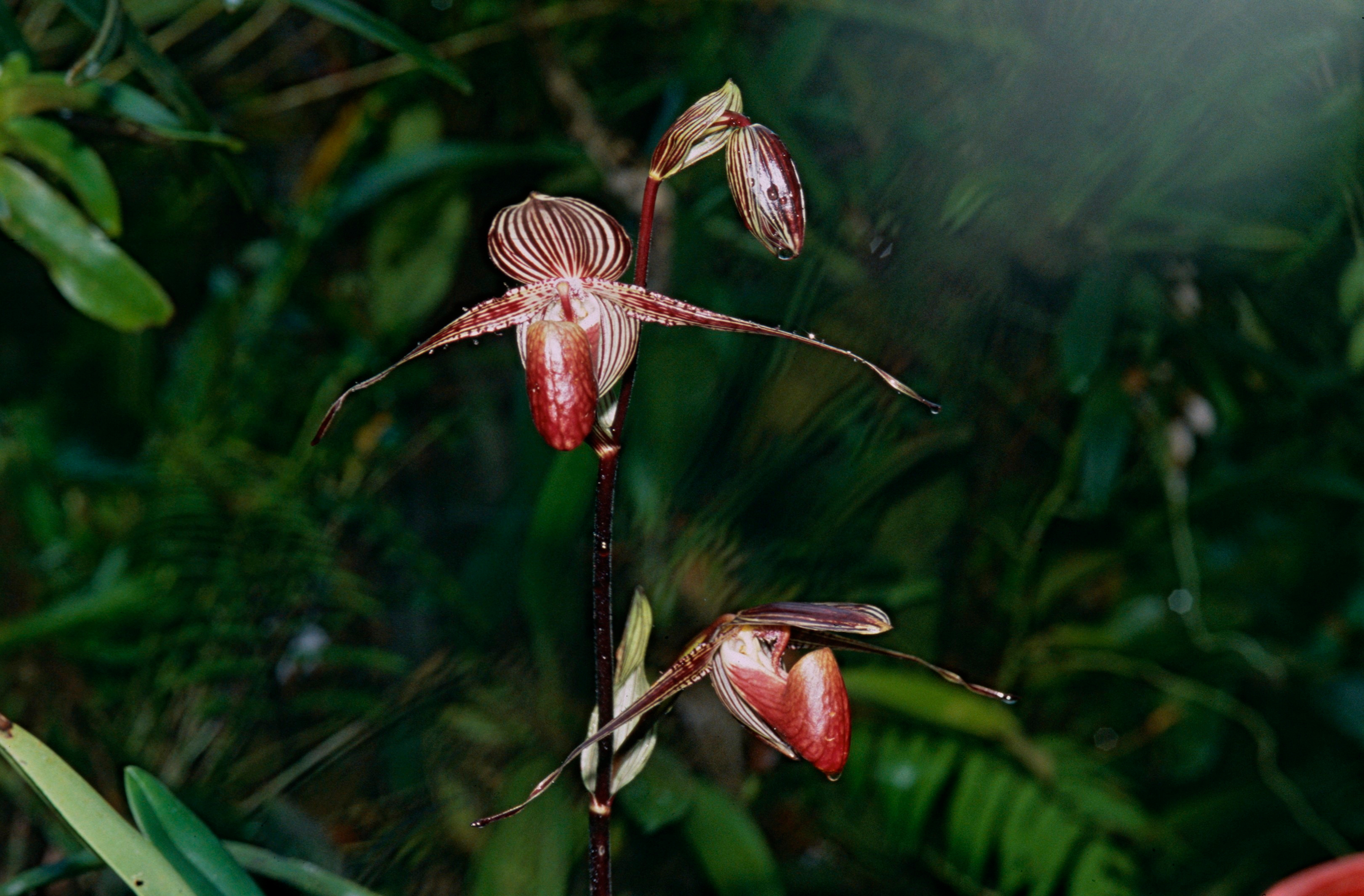 Mountain Garden, Mount Kinabalu NP, Sabah, MALAYSIA Scanned slide from 2001